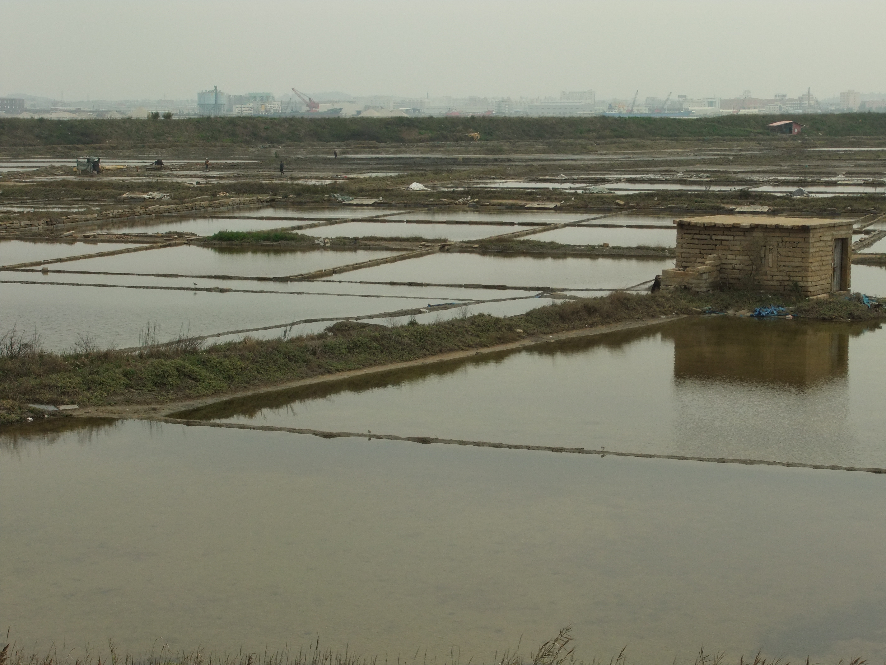 Anhai Bay is the estuary of the Shijing River. It separates Shijing Town (west side) from Dongshi town (east side). This is a tidal estuary; much of its bottom is exposed in low tide, and is used for something that looks like fishing and a form of oyster cultivation. These photos were taken from the west side of the bay, between Shijing and Shuitou; Dongshi Town's skyline can be seen in the background of some photos.